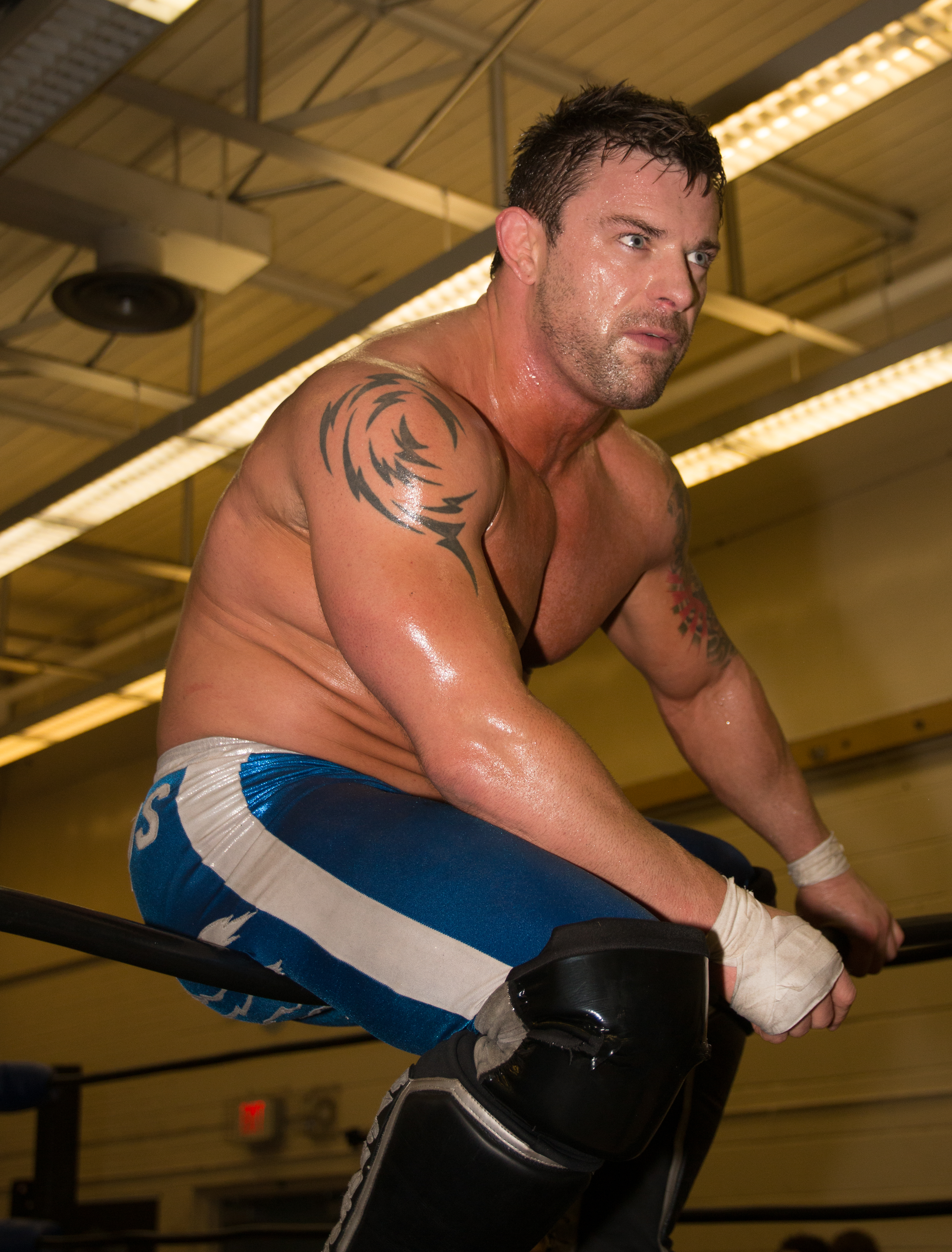 Davey Richards reacting post-match at a Smash Wrestling show in Etobicoke, ON